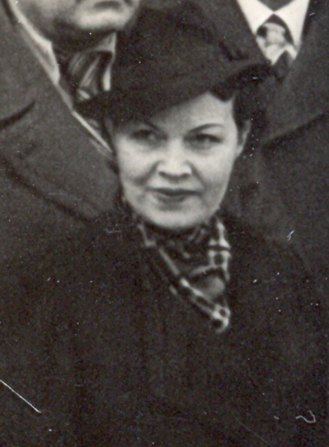 Bulgarian poet Elisaveta Bagriana (1893-1991)